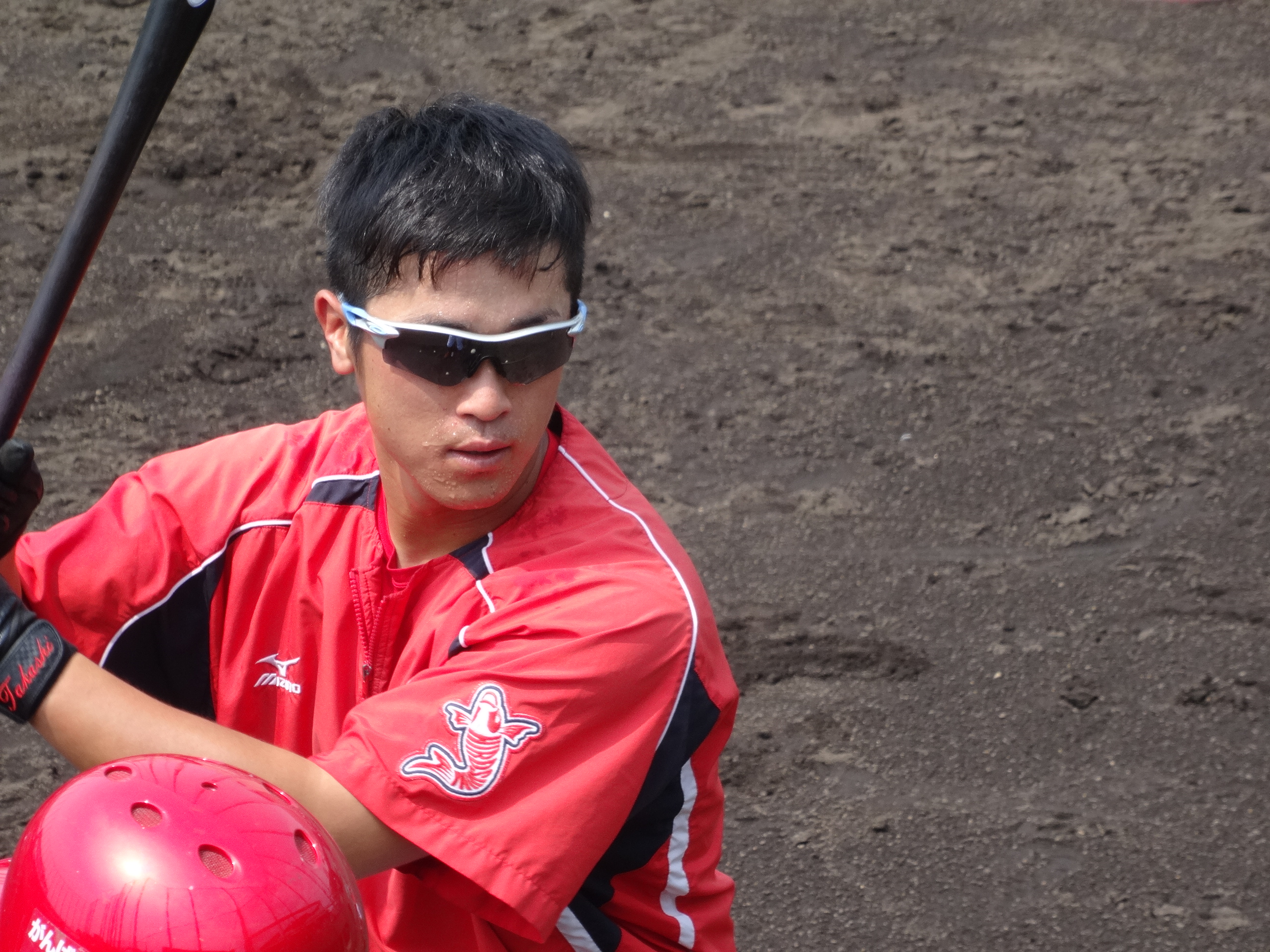 Takashi Uemoto, infielder of the Hiroshima Toyo Carp, at Hanshin Naruohama Baseball Ground.